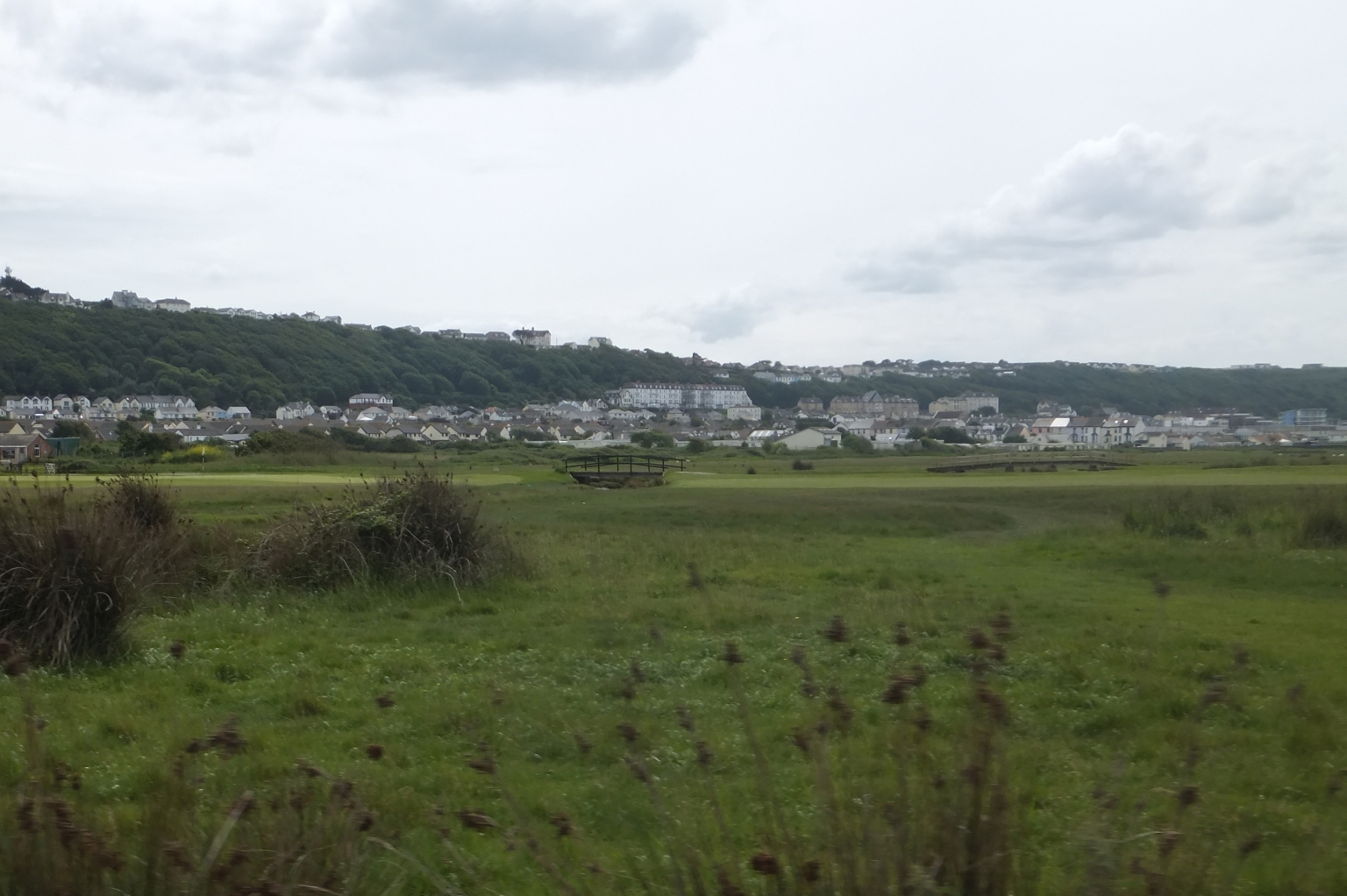 Royal North Devon Golf Club, Northam